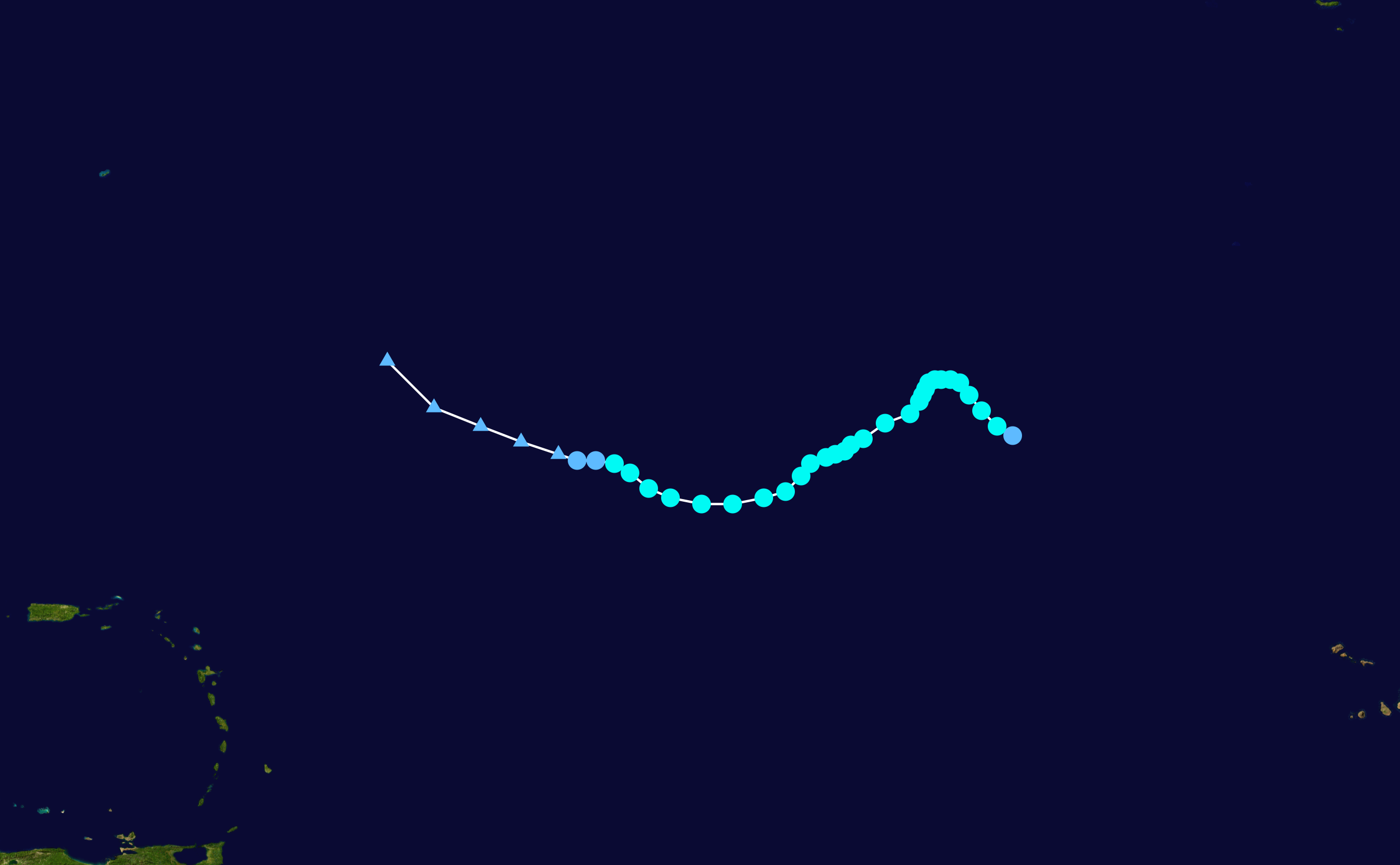 Track map of Tropical Storm Zeta of the 2005 Atlantic hurricane season. The points show the location of the storm at 6-hour intervals. The colour represents the storm's maximum sustained wind speeds as classified in the Saffir–Simpson scale (see below), and the shape of the data points represent the nature of the storm, according to the legend below. Saffir–Simpson scale Tropical depression≤38 mph≤62 km/h Category 3111–129 mph178–208 km/h Tropical storm39–73 mph63–118 km/h Category 4130–156 mph209–251 km/h Category 174–95 mph119–153 km/h Category 5≥157 mph≥252 km/h Category 296–110 mph154–177 km/h Unknown Storm type Tropical cyclone Subtropical cyclone Extratropical cyclone / Remnant low / Tropical disturbance / Monsoon depression